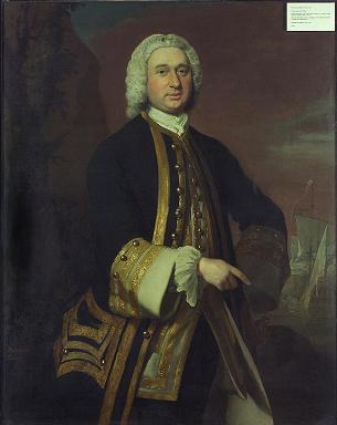 Portrait of Admiral William Gordon (die 1769)